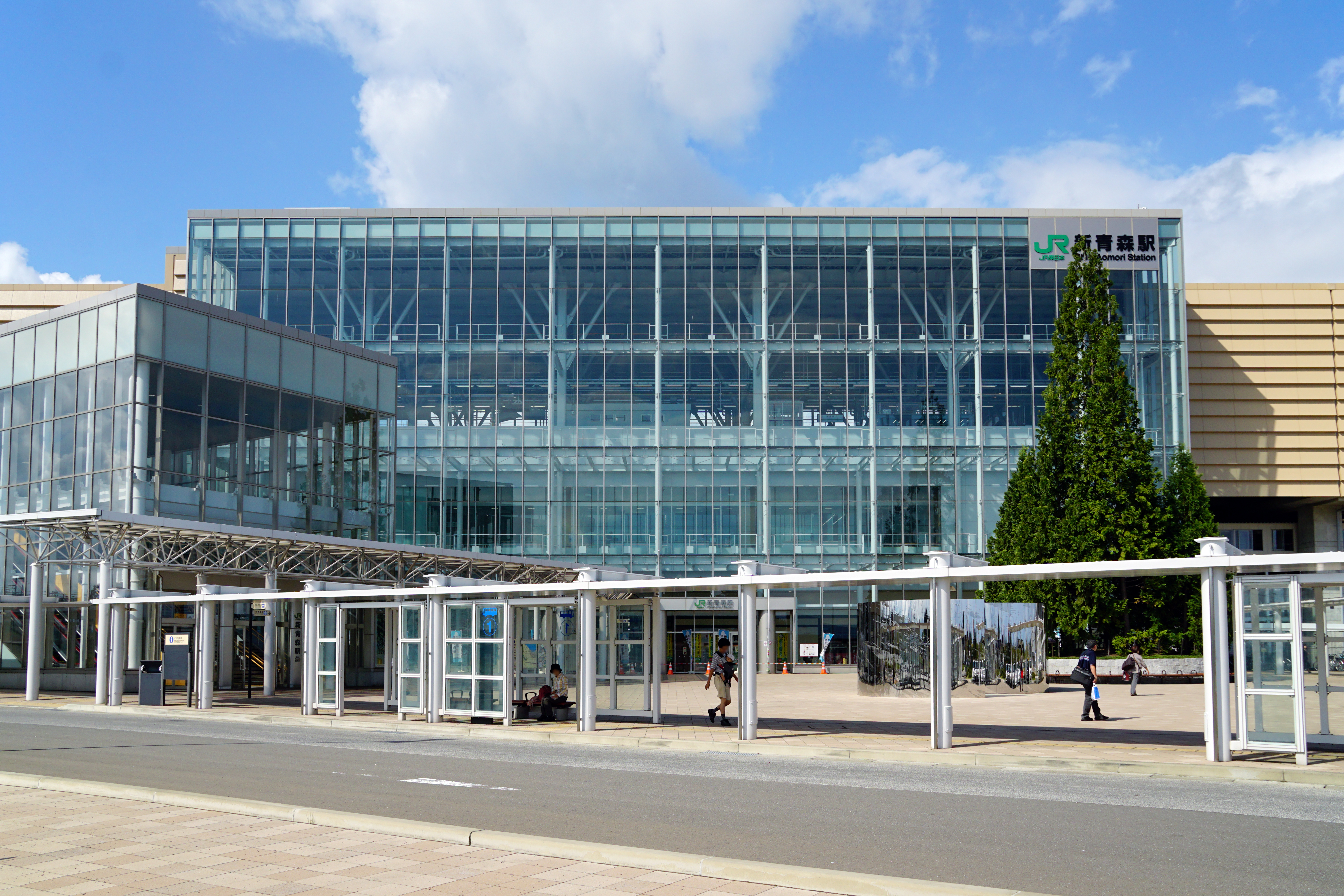 Shin-Aomori Station in Aomori, Aomori prefecture, Japan.